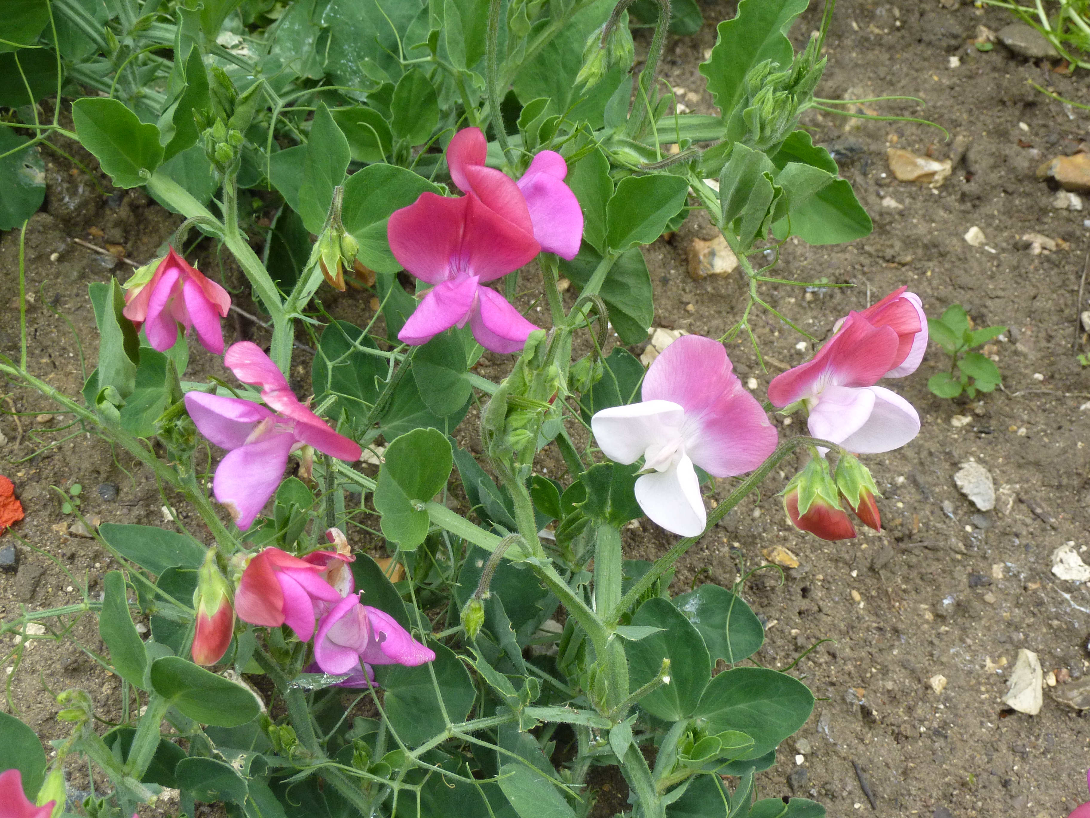 Taken in the Cambridge University Botanic Garden